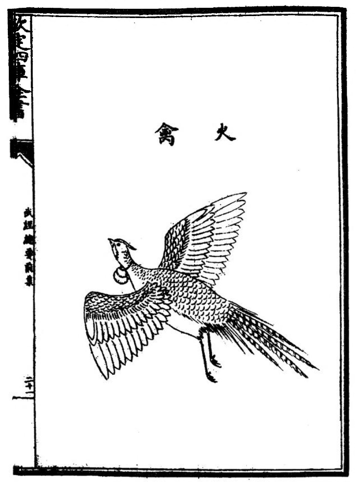 An expendable bird carrying an incendiary receptacle round its neck, one of many bizarre delivery systems of warfare found in the Chinese Wujing Zongyao manuscript, compiled by the year 1044 during the Song Dynasty of China. However, birds such as these were used as flying incendiary weapons as early as the 10th century. This illustration also appears on page 212 of Joseph Needham's book Science and Civilization in China: Volume 5, Part 7.